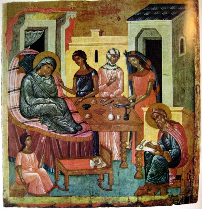 Nativity of John Baptist, 15 c, Hermitage/ Рождество Иоанна Предтечи